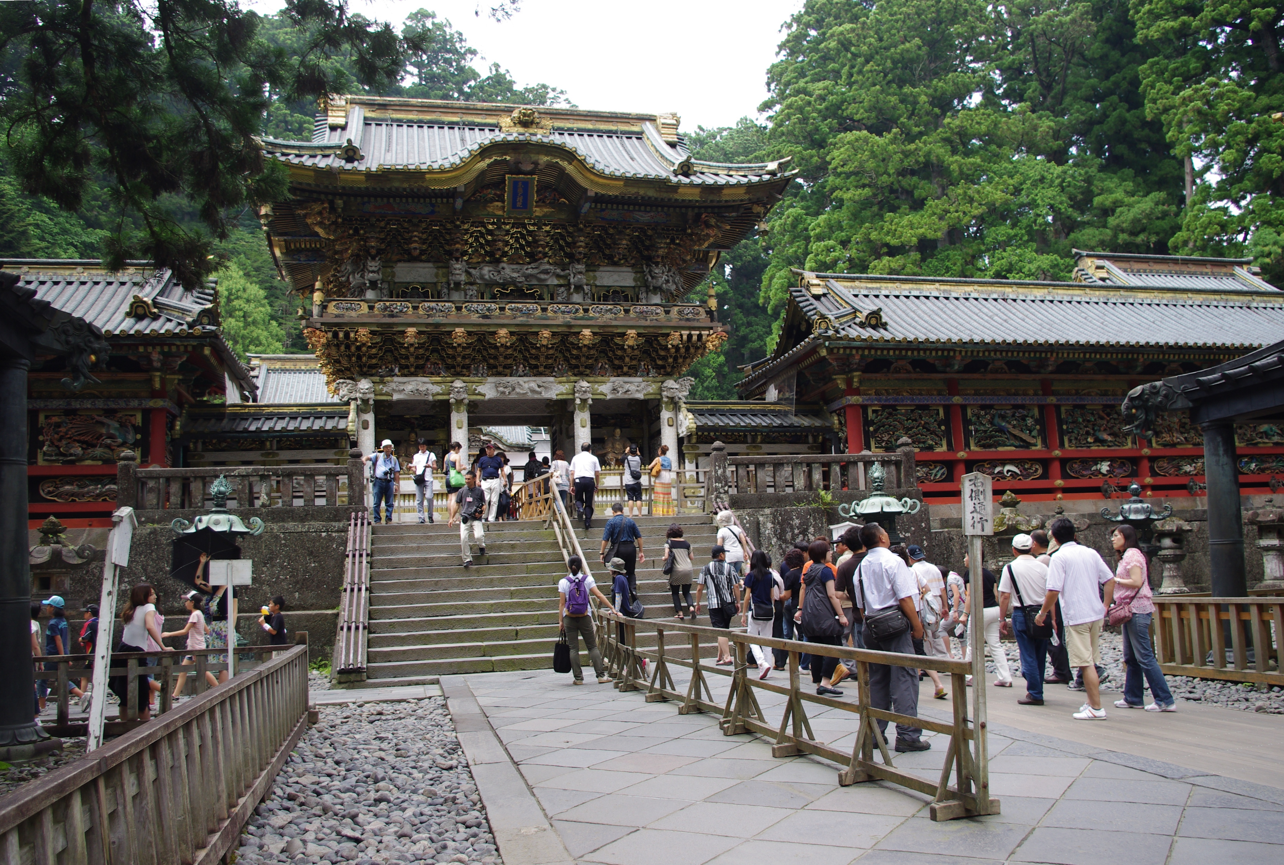 Yōmeimon Gate at Tōshō-gū Shrine in Nikko